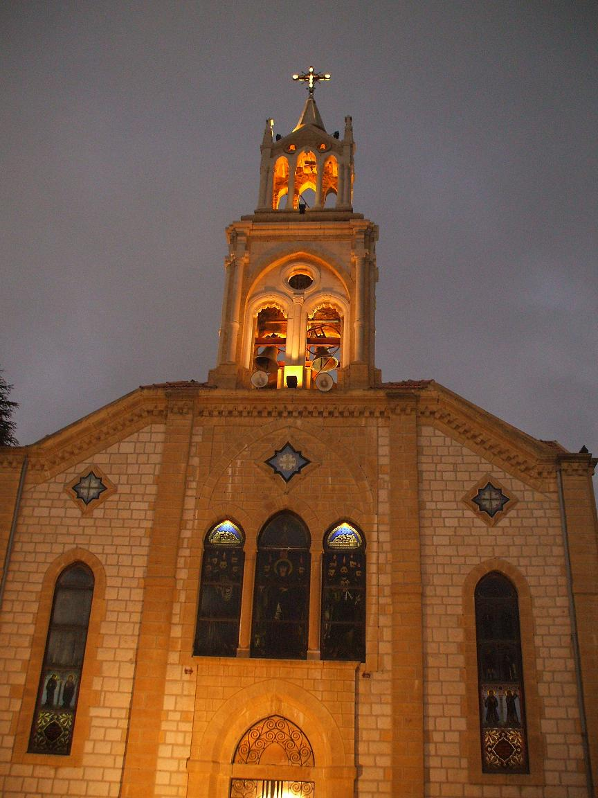 St. Peter & Paul in Qornet Chehwan, Lebanon